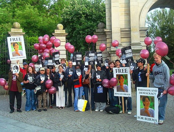 Celebration of Aung San Suu Kyi's 64th birthday in Dublin, Ireland; Event made possible by BAI - Burma Action Ireland. Photo by Steven Baldesco.